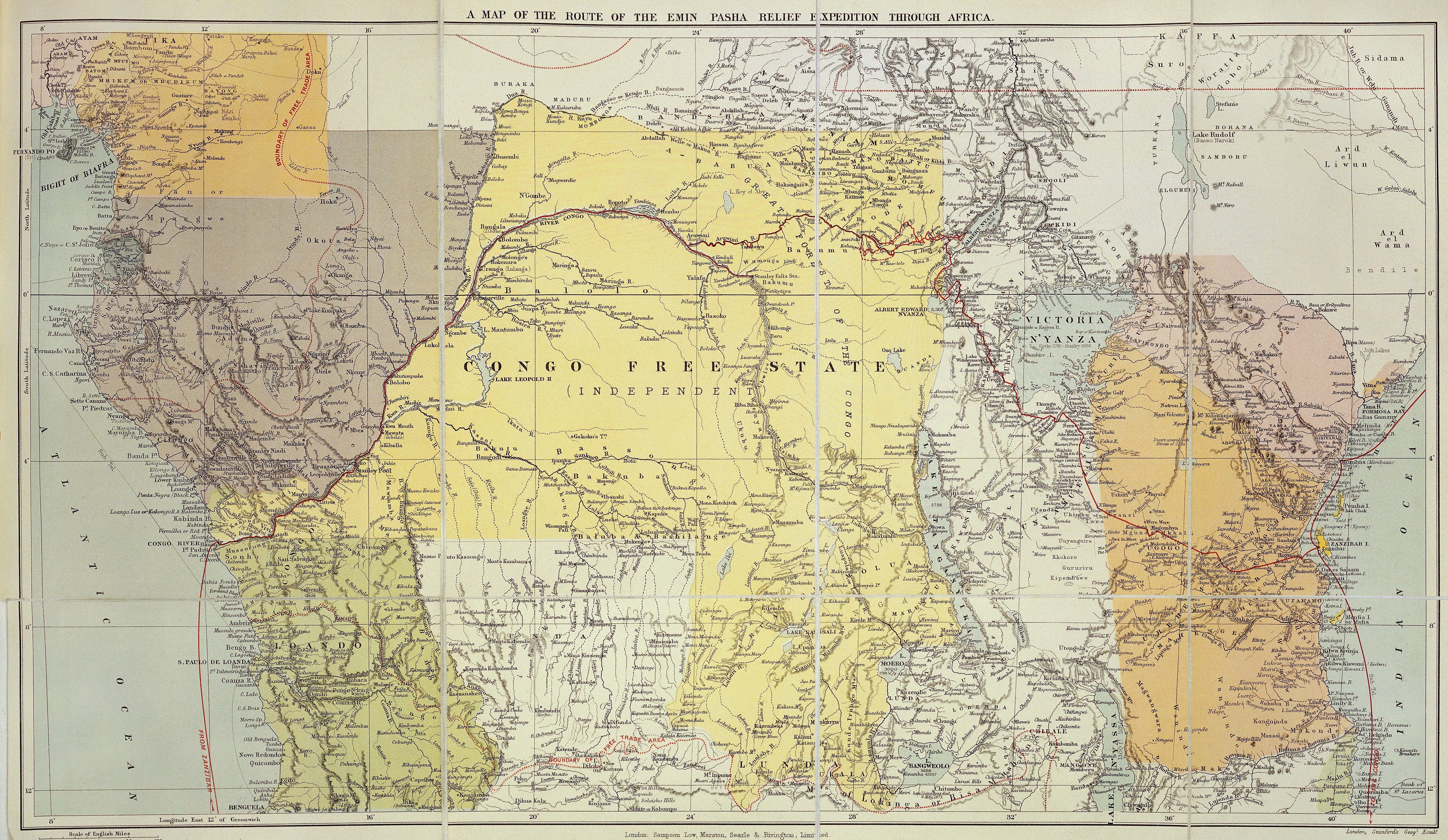 A Map of the route of the Emin Pasha Relief Expedition through Africa General Collections Keywords: Emil Pasha; Africa, Central; Expedition; Travel; Henry Morton Stanley; Emin Pasha Relief Expedition; Central Africa; Travels; Congo; Exploration; Uganda; Kenya; Cameroon; Lake Victoria; Expeditions